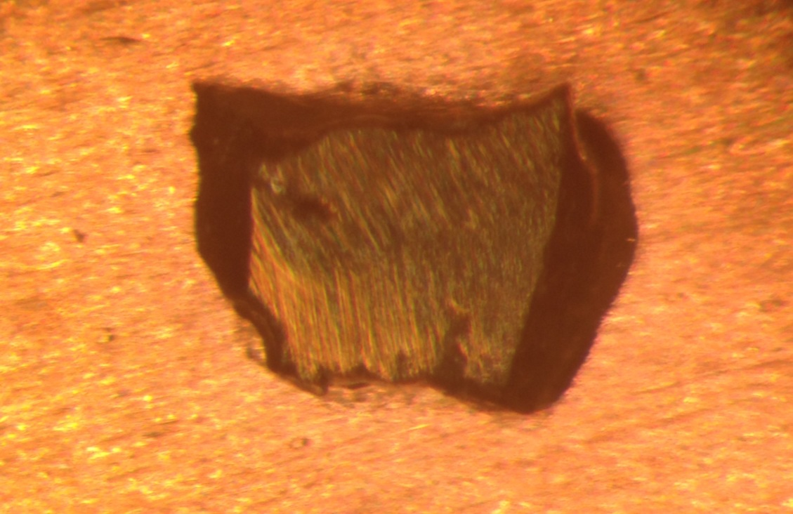 HBCCO-1201 high temperature superconductor crystalline sample viewed under microscope. Sample is in underdoped phase with superconducting critical temperature of 81K. Photographed at Materials Science Division, Lawrence Berkeley National Laboratory.